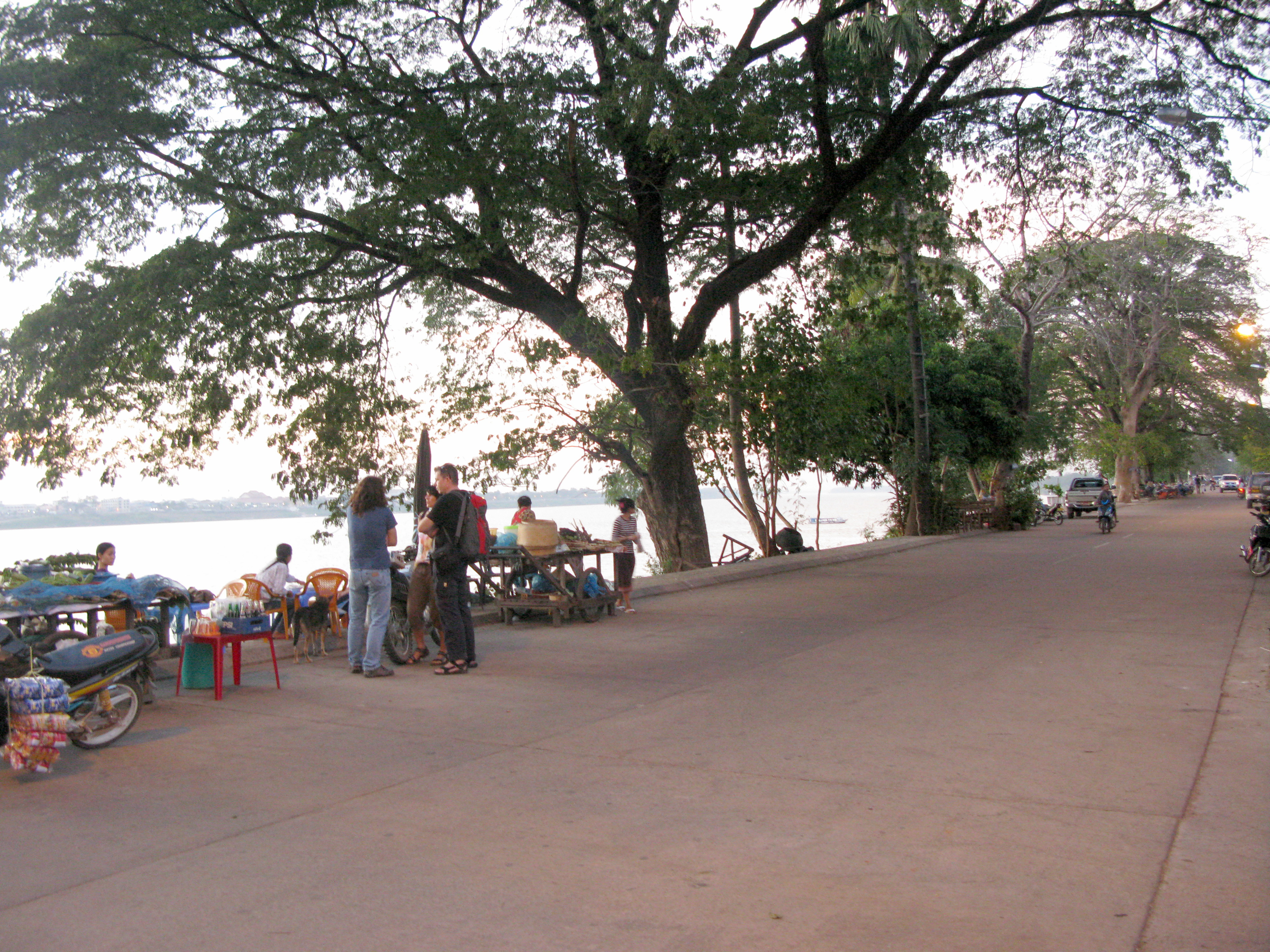 A street on the bank of Mekong river in Thakhek, Khammouane, Laos.